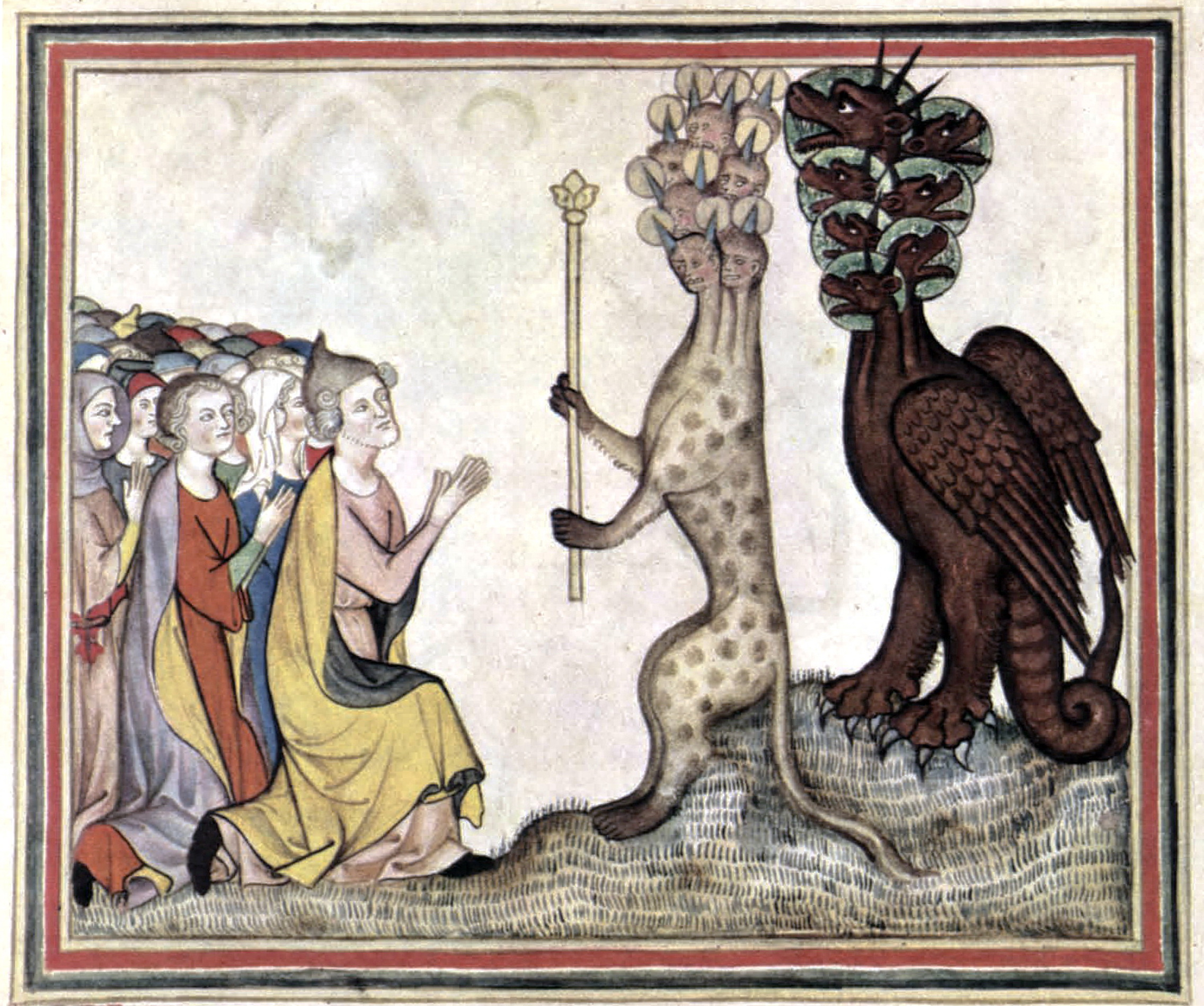 Cloisters Apocalypse